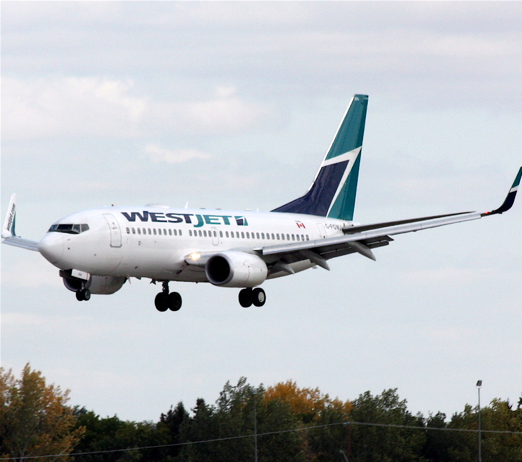 A Westjet 737-700 coming in for a landing on runway 31 at Regina International Airport.